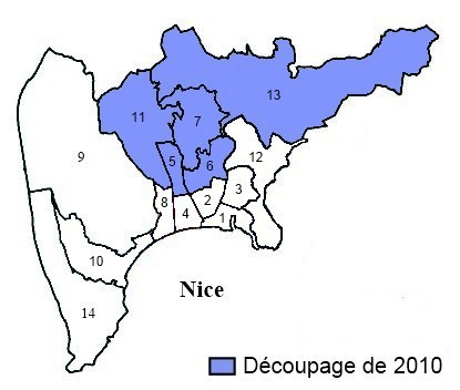 Map of Alpes Maritimes' 3rd constituency (France) under the 1986 redistricting.